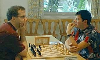 Rolf Schlindwein - Christopher Lutz (left), German Chess Bundesliga 2000/01, Photographer Gerhard Hund.